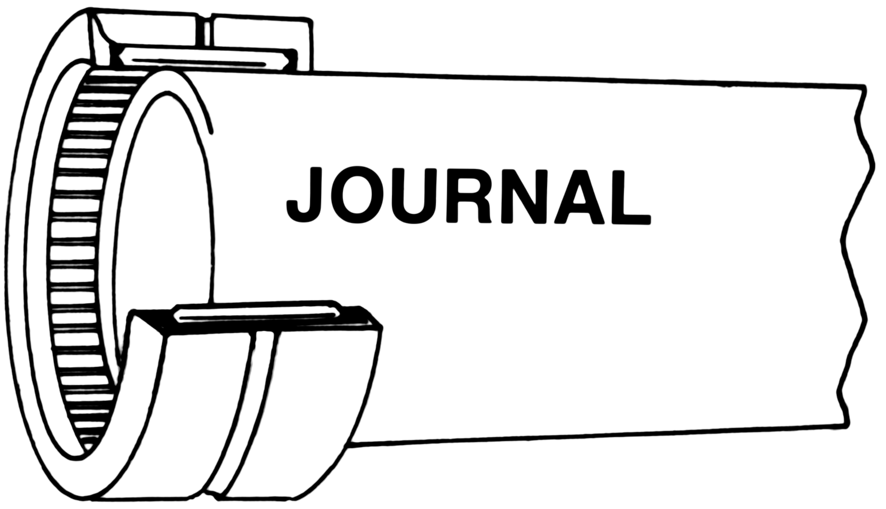 Line art of journal.